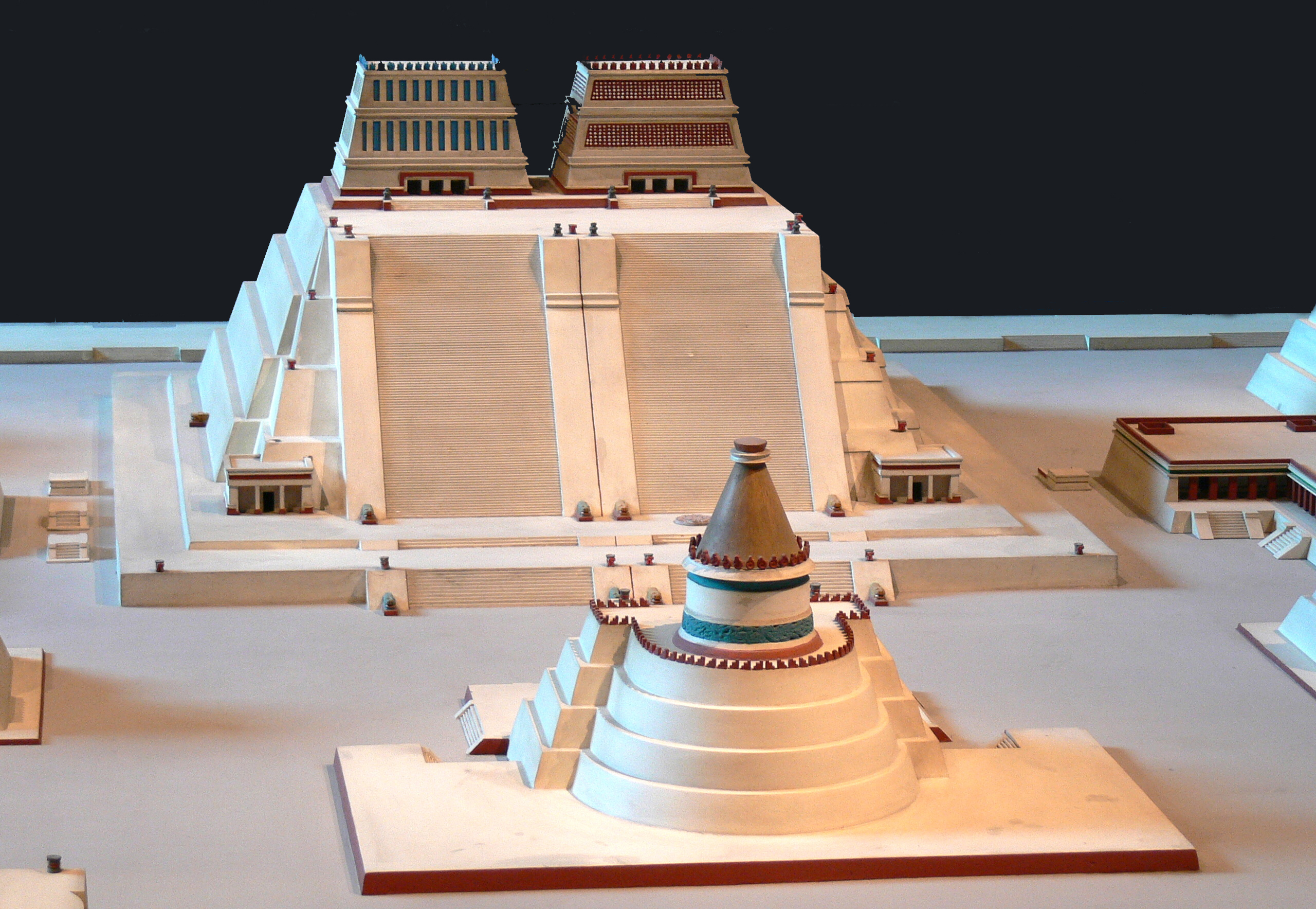 National Museum of Anthropology in Mexico City. Reconstruction of the Templo Mayor of Tenochtitlan